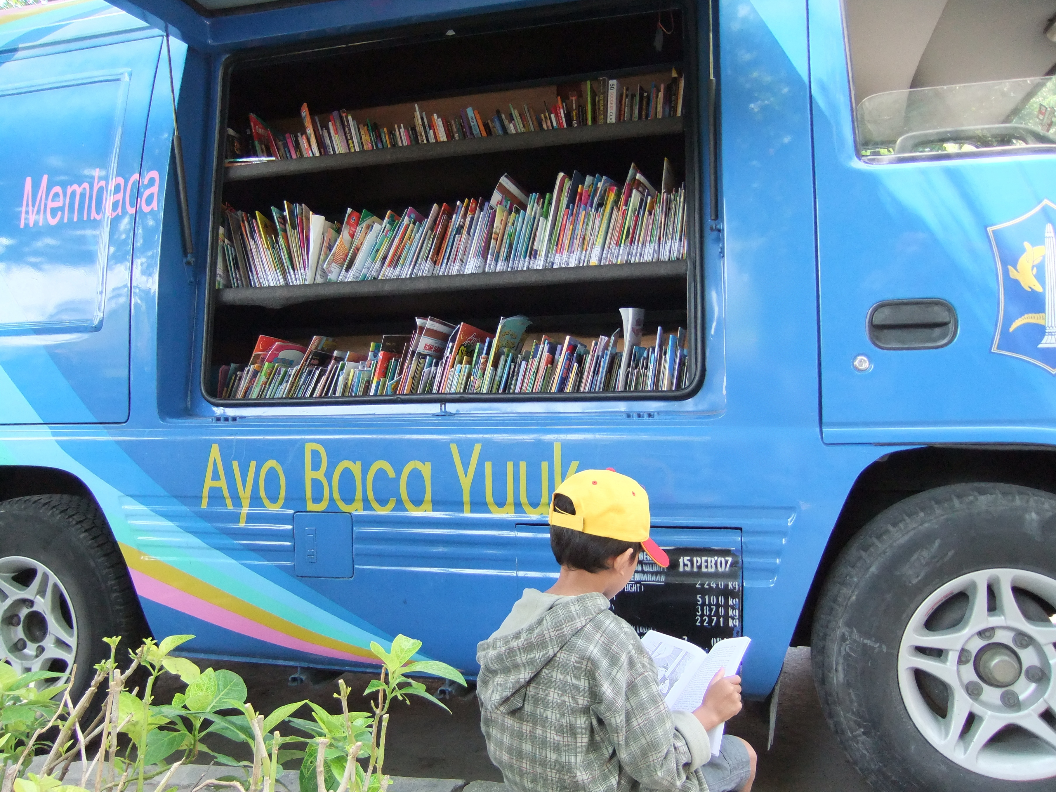 Bookmobile, Bungkul Park, Surabaya